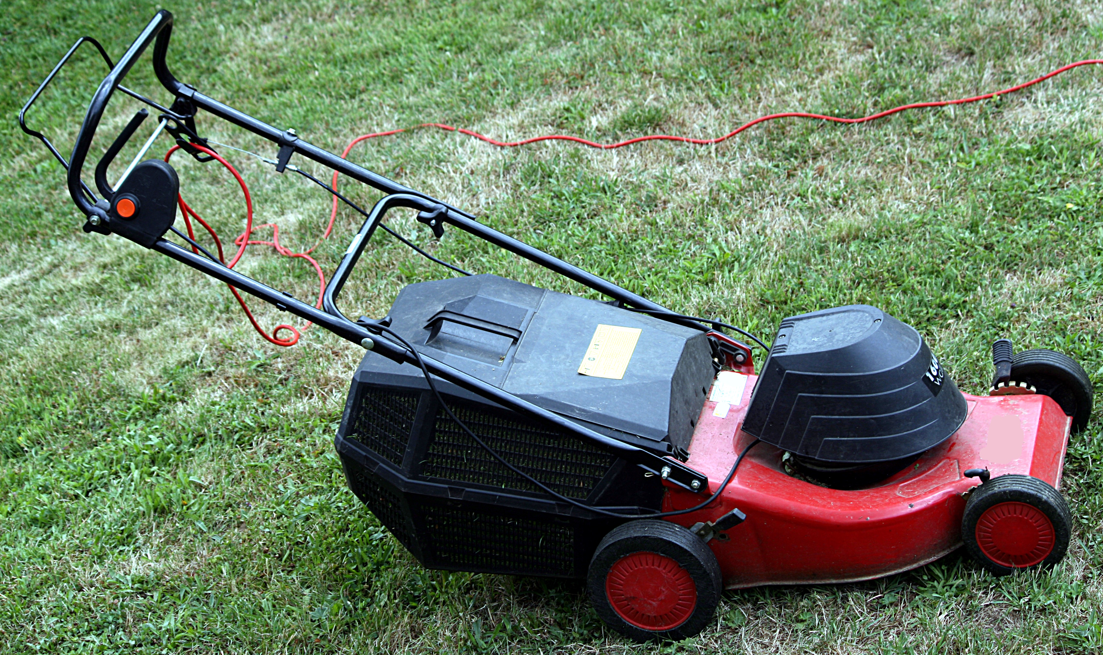 Electric lawn mower